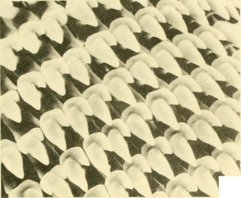 SEM black and white photo of central and early lateral teeth of radula of Novisuccinea chittenangoensis. FMNH 175425. Magnification 435×.